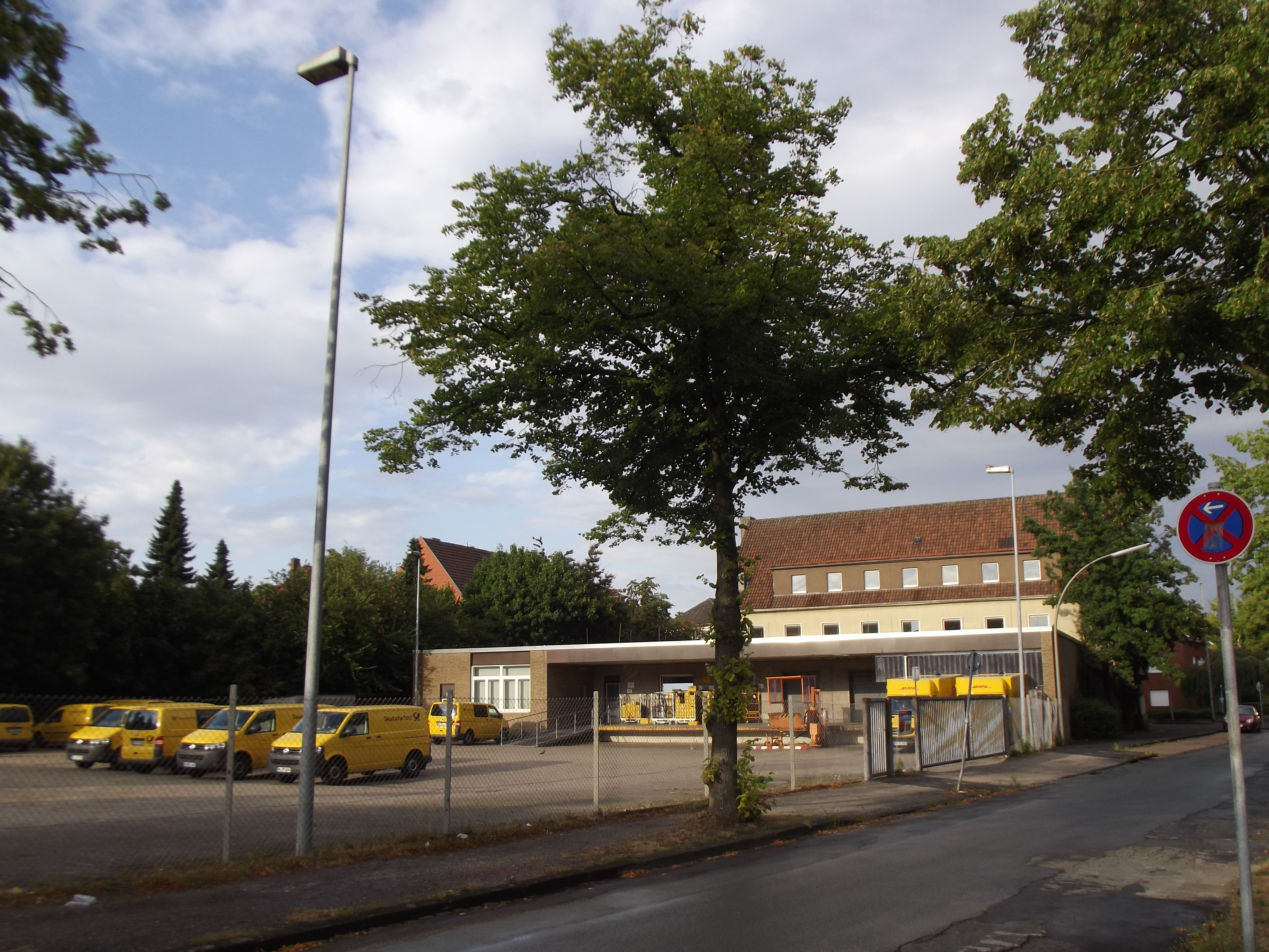 Typical DHL subsidiary, sharing logistics and parking space with Deutsche Post, using the backyard of a Deutsche building as parking area